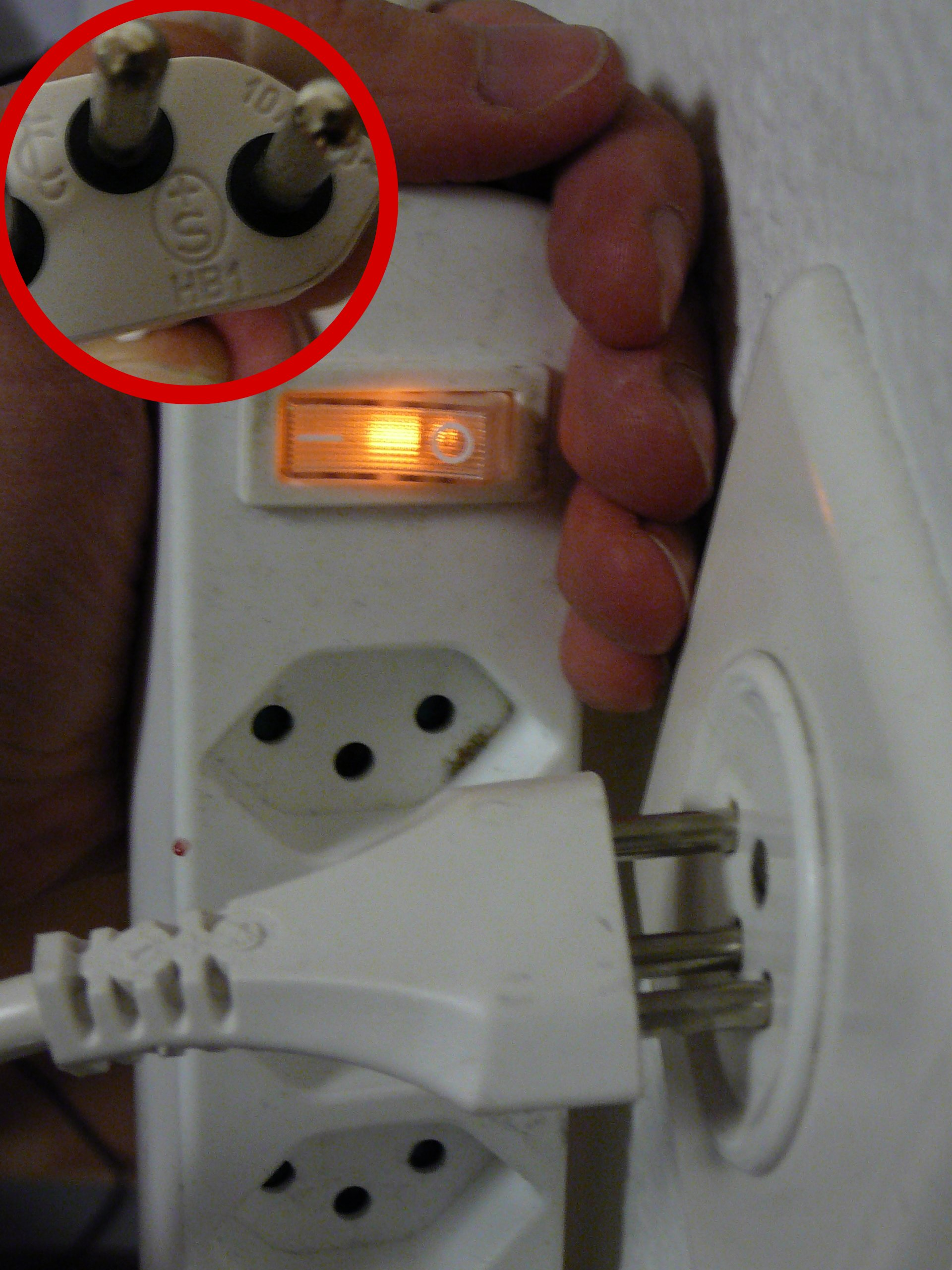 Swiss power socket - showing how lethal voltage is accessible when the plug is partially inserted. The SEV 1011 Standard disallows such T12 sockets from 2016 on and T12 plugs must have isolated pins since 2013, see illustration at SEV 1011 Vergleich Typ 12 Stecker.jpg. Refer SEV 1011 for details.